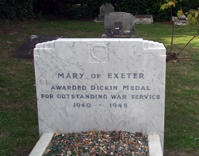 Still from a video (2010-09-01) taken with Sony HDR-HC7E camcorder, cropped and processed in Photoshop CS2 (2010-09-02).